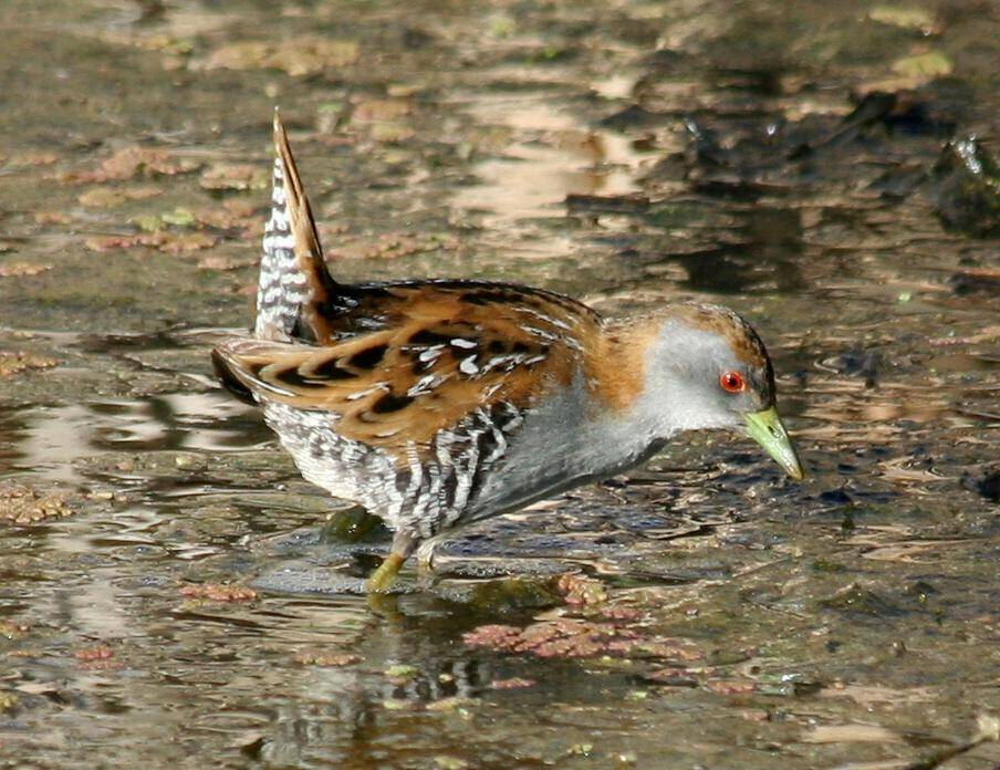 Baillon's Crake taken in Northern Victoria, Australia